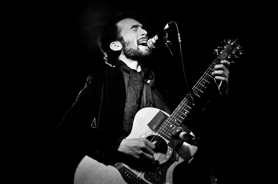 Black and White photo of Sam Sallon performing with a Taylor acoustic guitar while singing